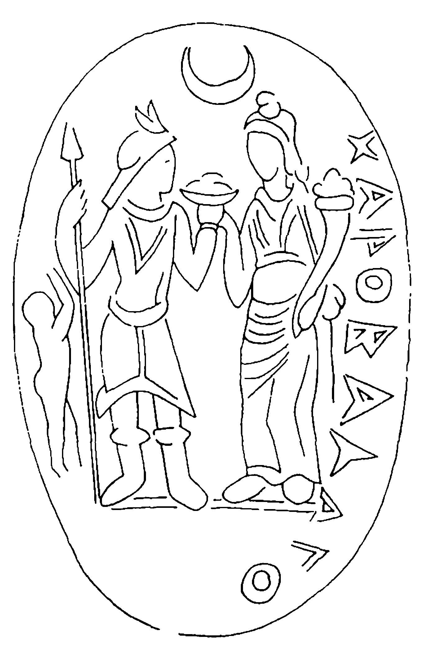 Ardoxsho and Farro